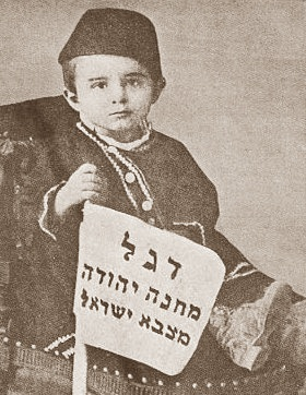 Itamar Ben-Avi in the 1880s